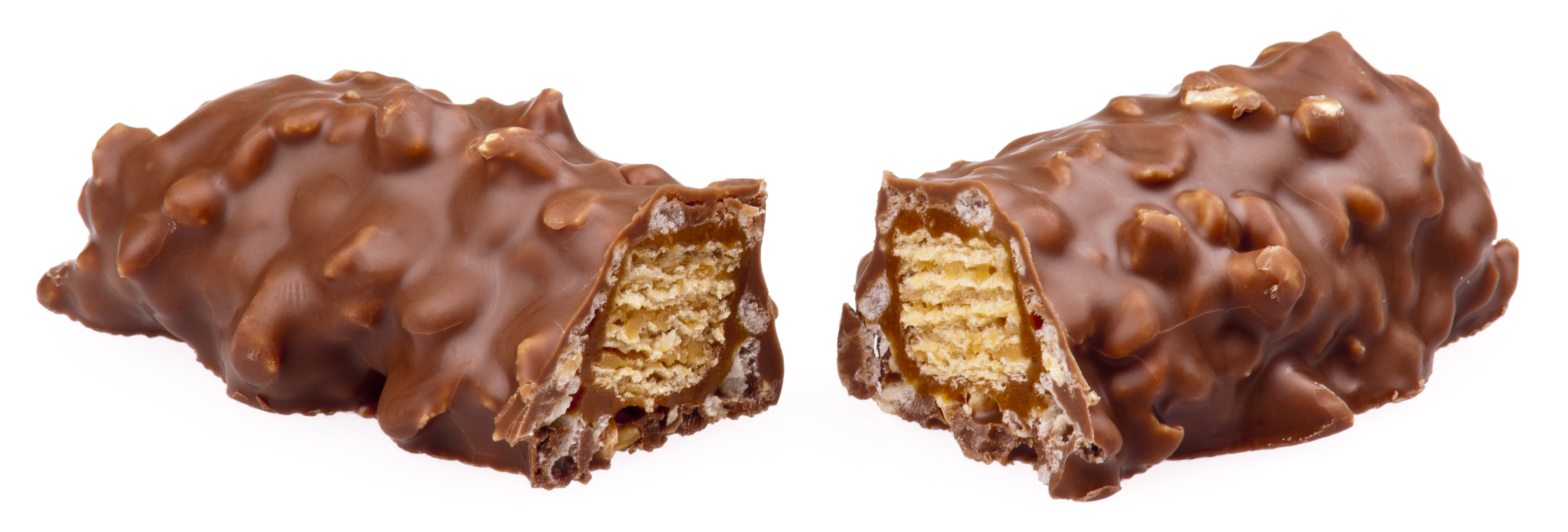 A Lion Peanut candy bar by Nestle. Sold in the UK.